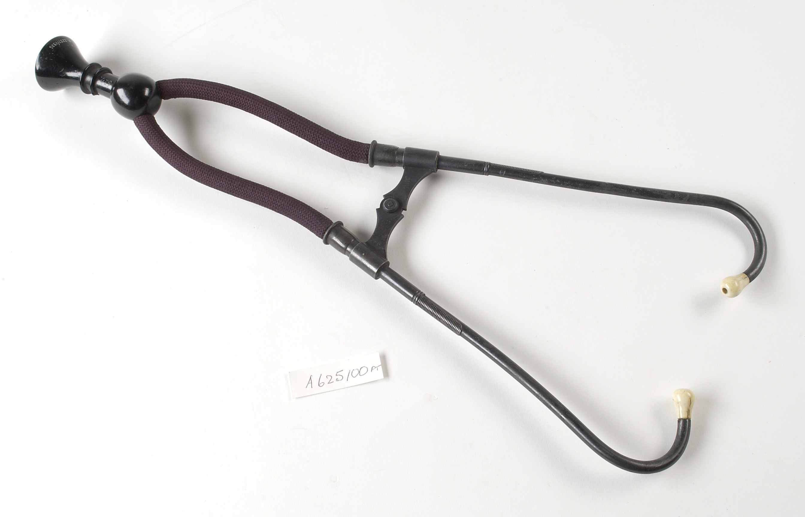 A 19th century stethoscope with a bell-shaped end and a flexable tubing for both ears. Made by Scott Alison Wellcome Images Keywords: Doctor; Instruments; Hearing; Listening; Heart Rate; Heartbeat